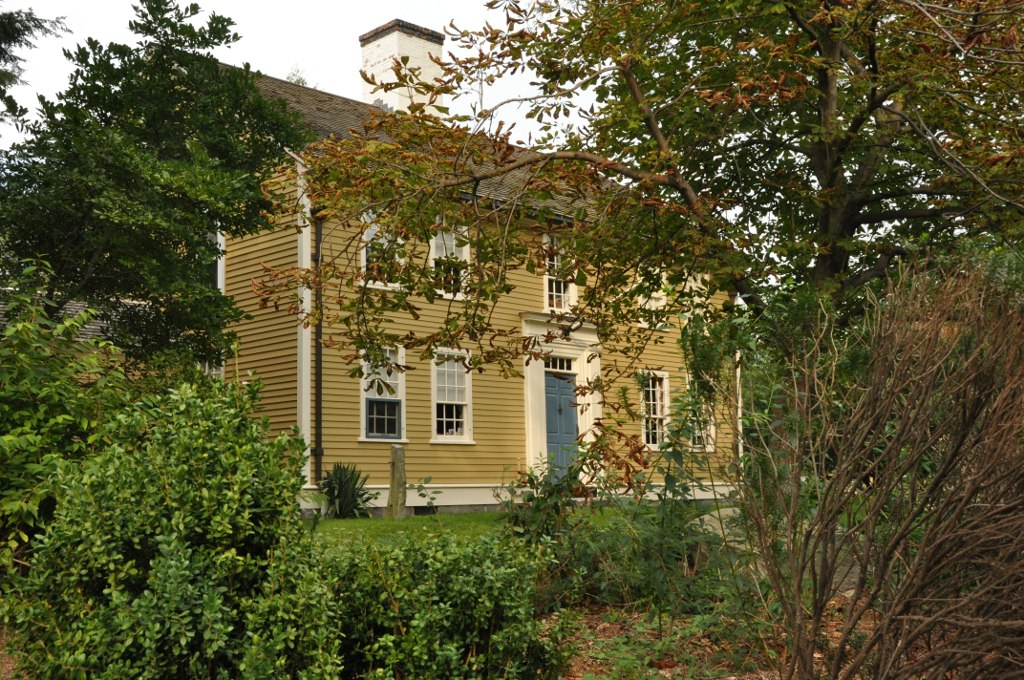 A photograph of the historic Henry Fletcher House in Westford, Massachusetts.